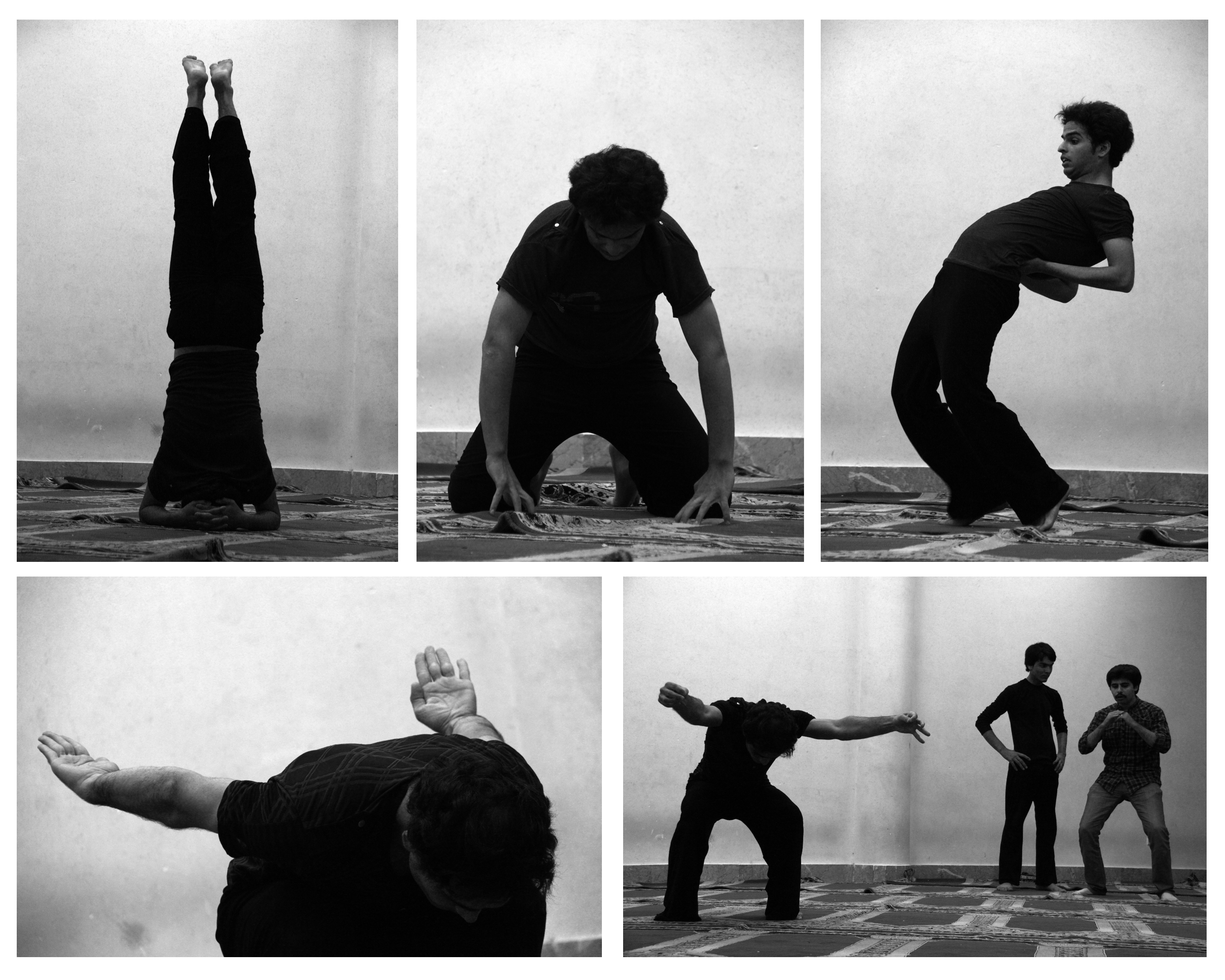 Garage Theater Company is an amateur experimental theater group from Qom, Iran, researching and practicing in the field of theatre laboratory. The group attempts to develop these techniques and vernacularize them in order to give them a native identity. Garage Theater Company believes that a play, like a vehicle in an auto shop, should be diagnosed and repaired. Even though the vehicle is able to move forward, it needs care and troubleshooting. During each training period, the group members prepare exercises and workshops for developing acting methods in order to utilize different potentialities of text and contextualization